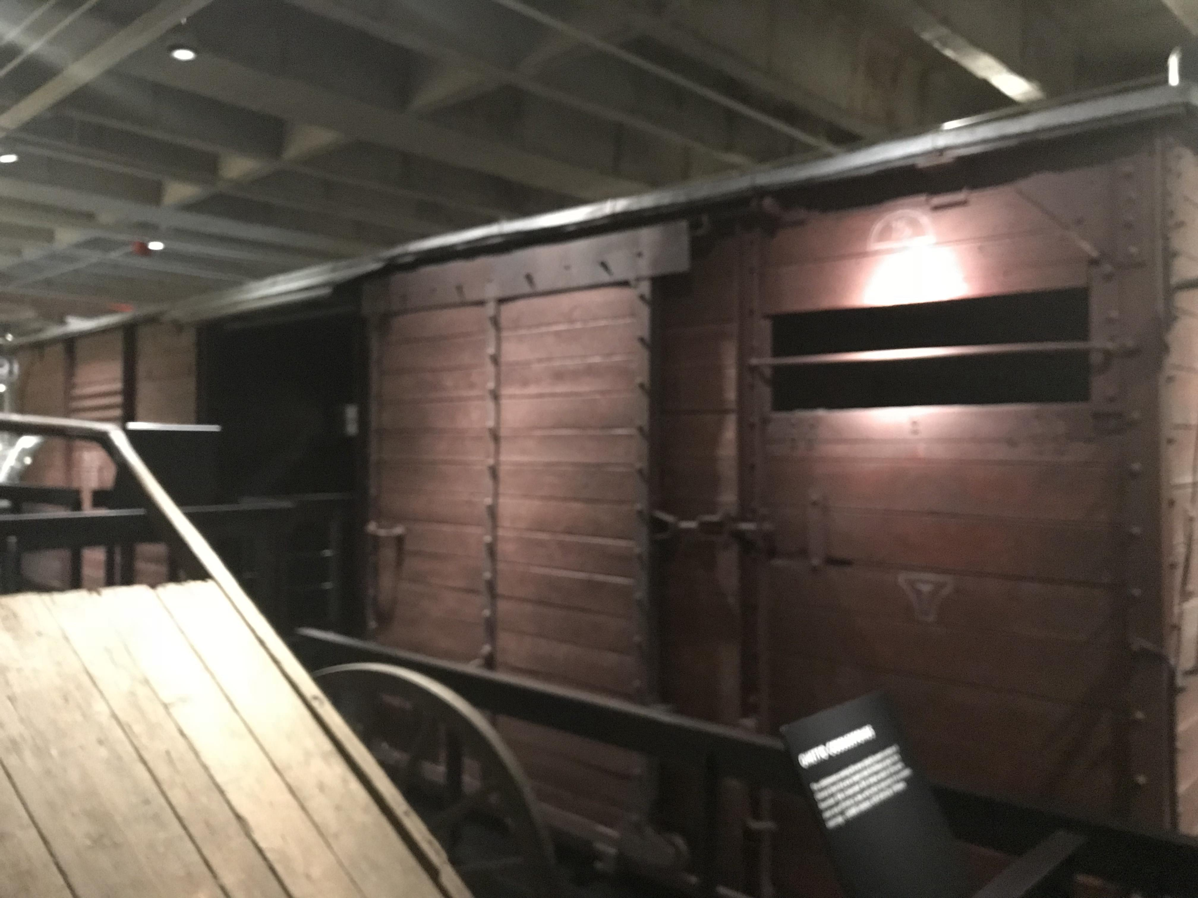 Railroad cars would transport Jews to concentration camps; many were unaware of their fate.